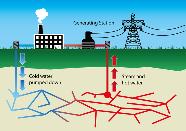 Figure 1 Geothermal Plant